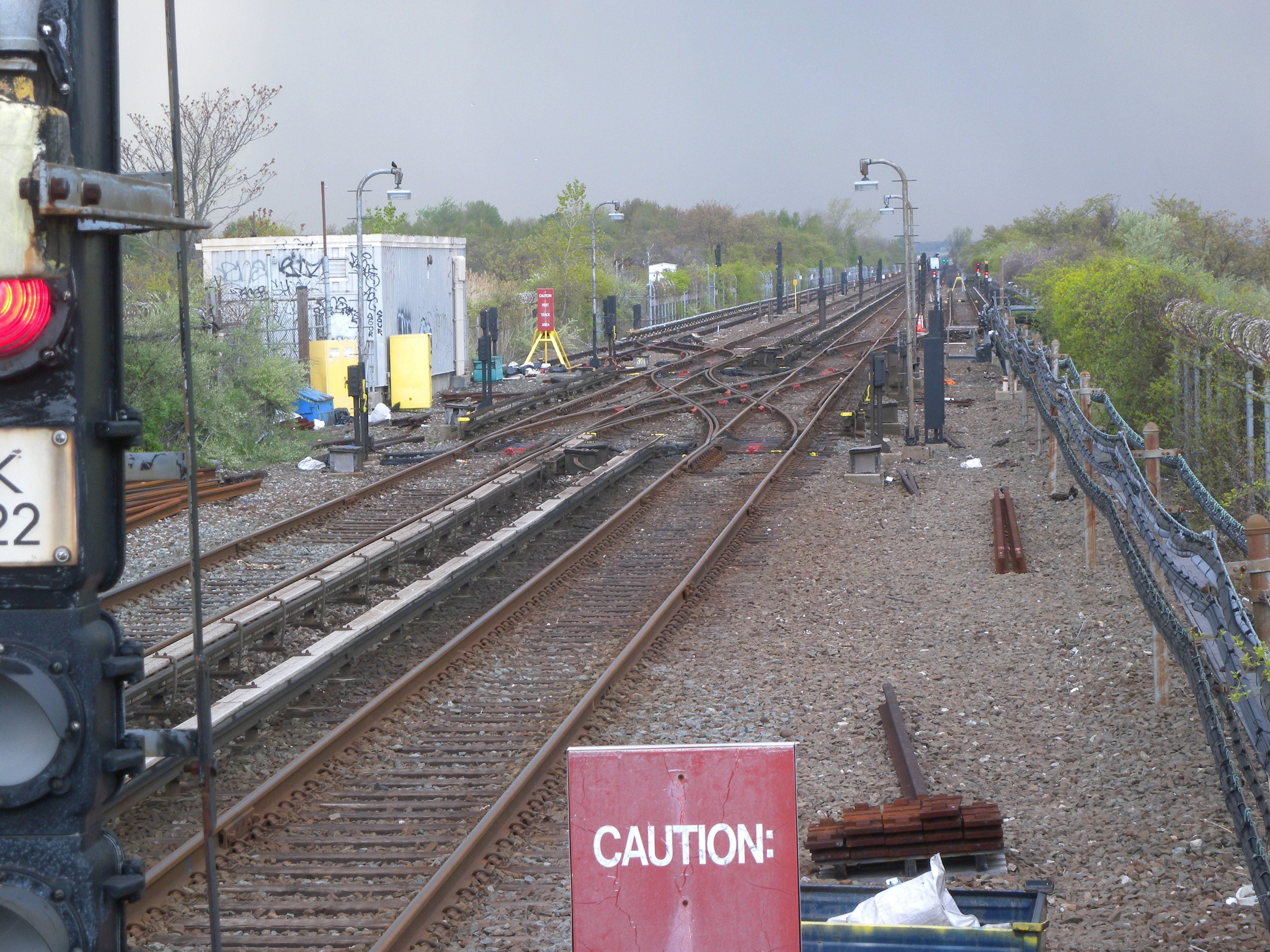 Looking north with max zoom from Broad Channel Station at crossover as afternoon storm clouds gather.